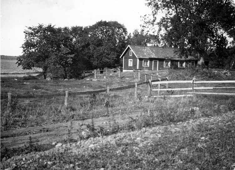 Dikartorps gård, Jakobsberg, cirka 800 meter norr om Görvälns slott, Järfälla kommun, Stockholms län. Dikartorp är bebott till 1929, senast av gårdssmeden på Görväln Jan Åman. Det står sedan obebott en kortare tid varpå byggnaden bränns ned.